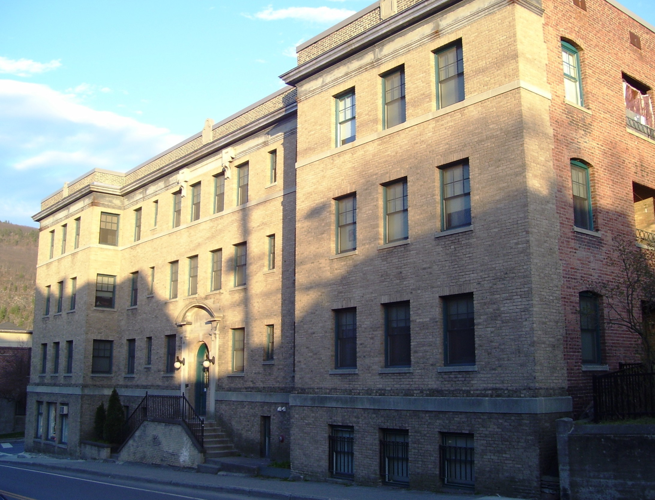 The Abbot apartments on Canal Street at South Main Street in Brattleboro, Vermont. It is located in the Canal Street-Clark Street Neighborhood Historic District.